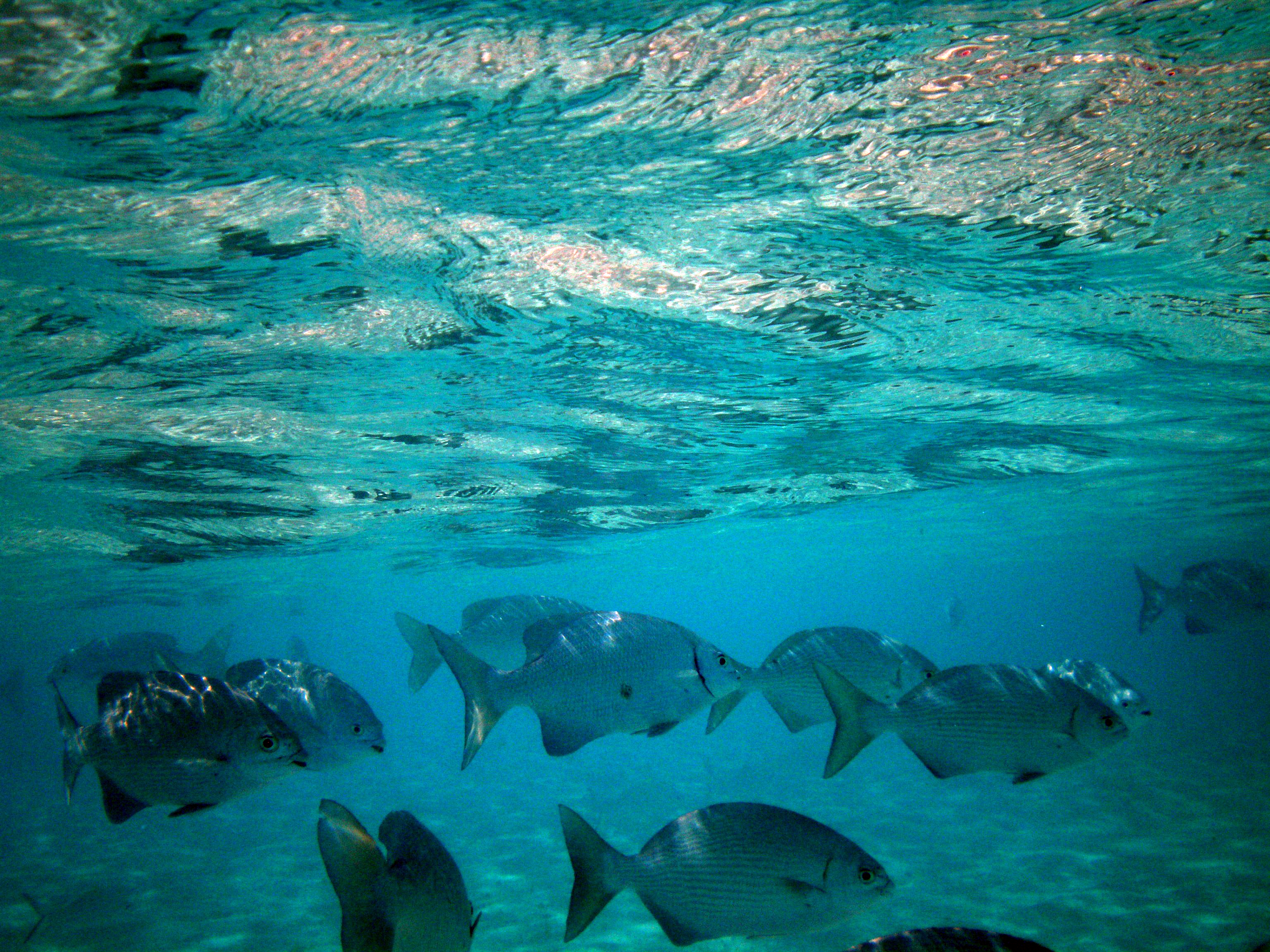 Maldives rudder fish (Kyphosus cinerascens), Meeru island